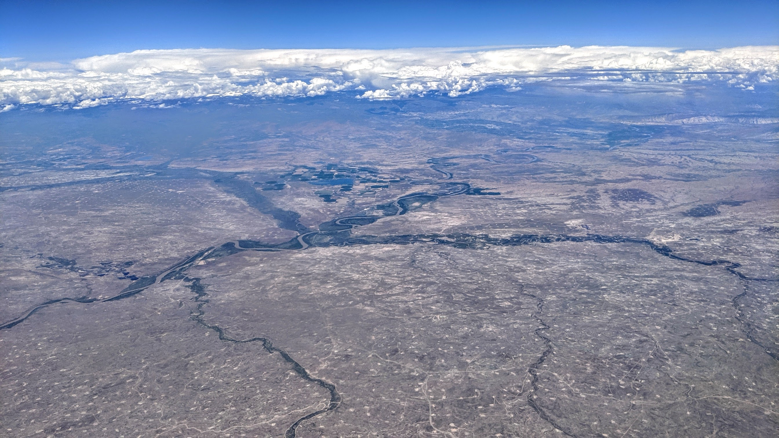 Aerial view from the south of the Green River at Ouray, Utah, (center) with the Pariette Wetlands (far left). The Duchesne River enters the Green from the north (top left) and the White River enters from the east (right).